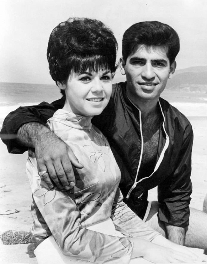 Photo of singers Linda Scott and Steve Alaimo from the television program Where the Action Is.